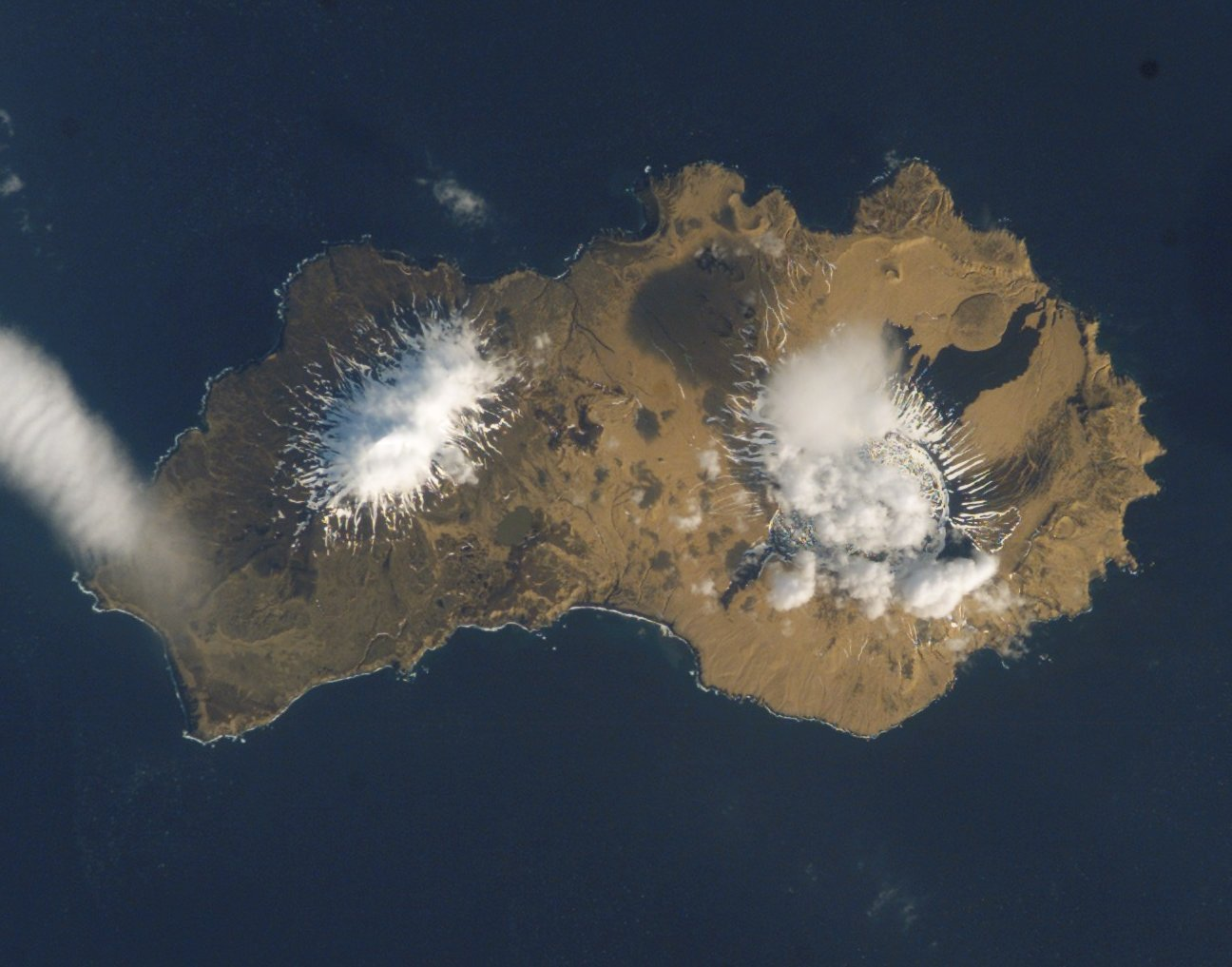 Yunaska Island, Aleutians, Alaska, photographed by astronaut.